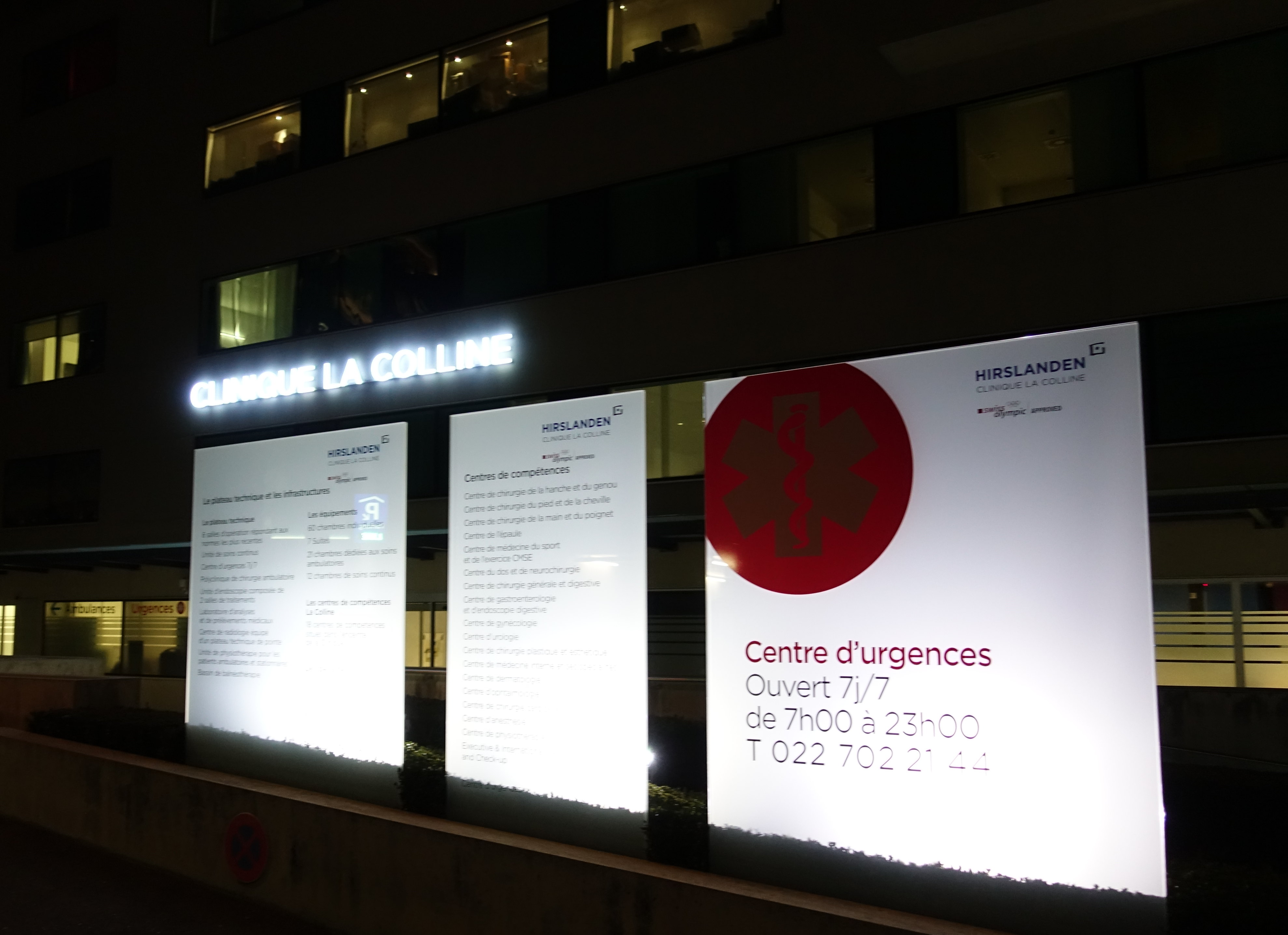 Clinique la Colline, Geneva